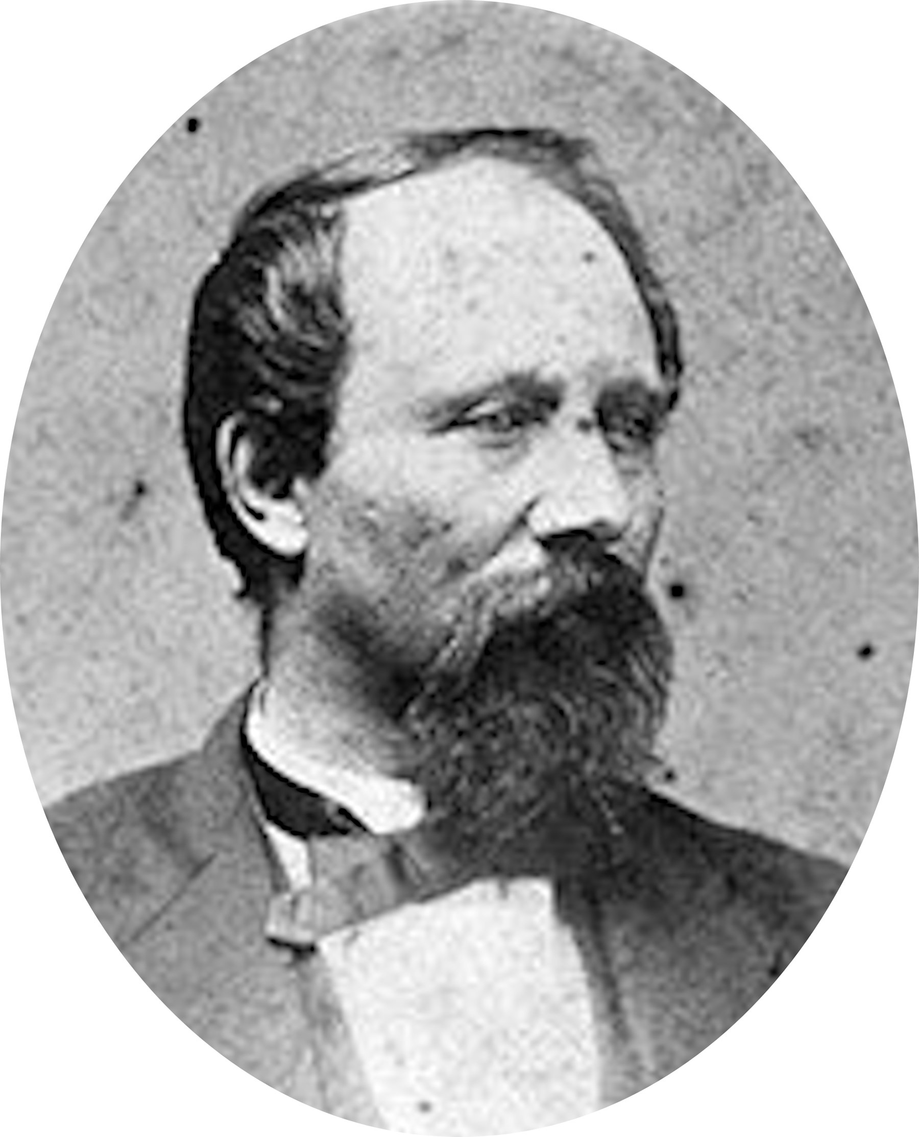 Medal of Honor winner Thomas Orville Seaver 1875